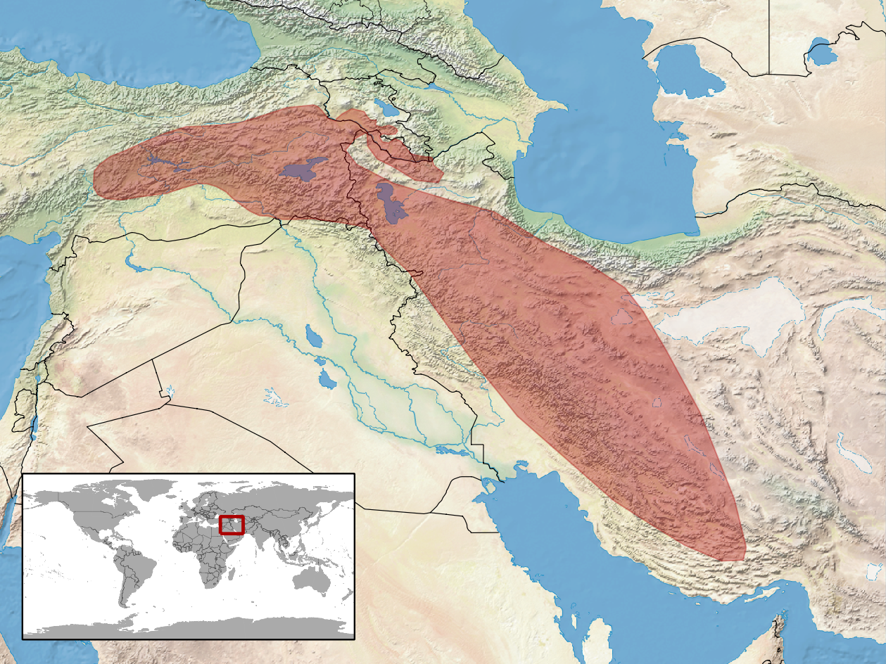 geographic distribution of Eirenis punctatolineatus (Native: Armenia (Armenia); Azerbaijan; Iran, Islamic Republic of; Turkey)